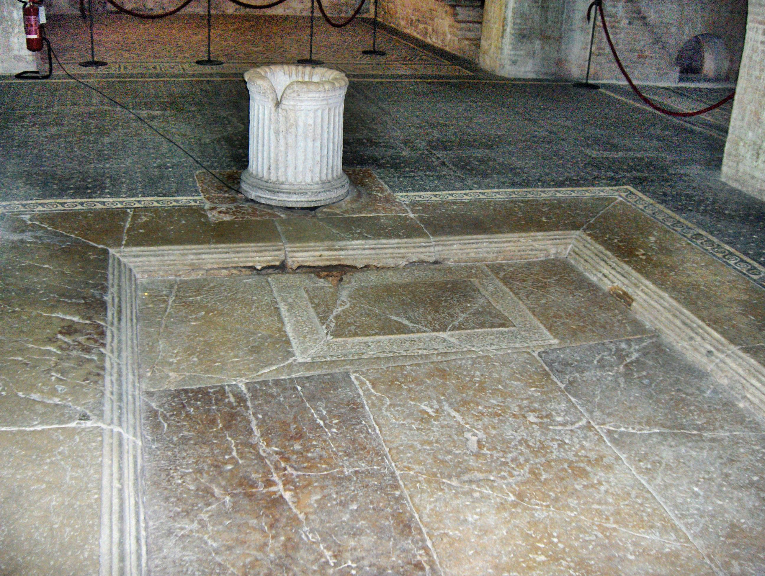 Impluvium of the Roman House (1st c. AD), Spoleto, Italy